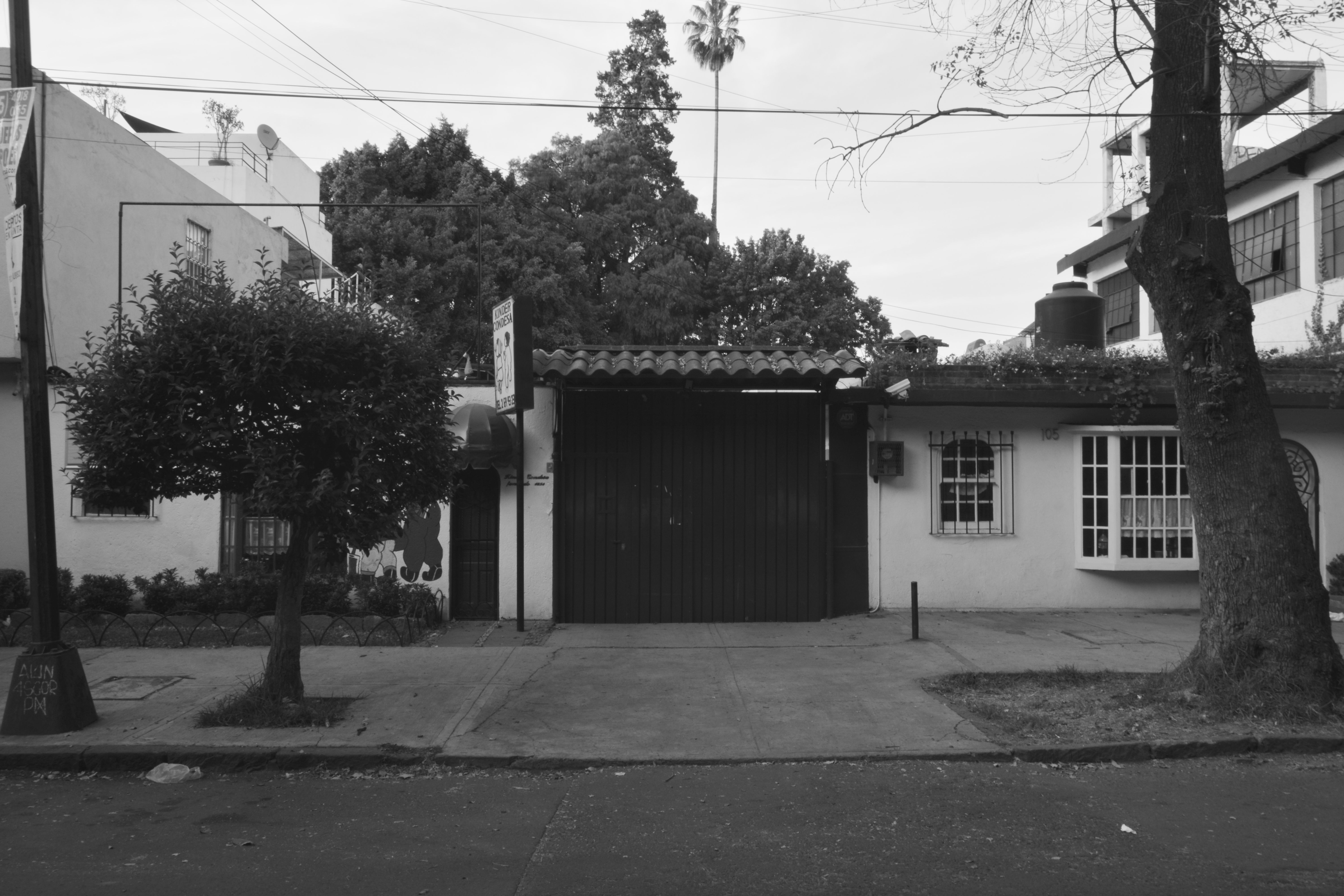 Alfonso Cuaron's "Roma" filming locations in Mexico City. BW version.